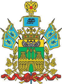 Krasnodar kray, coat of arms (1995)